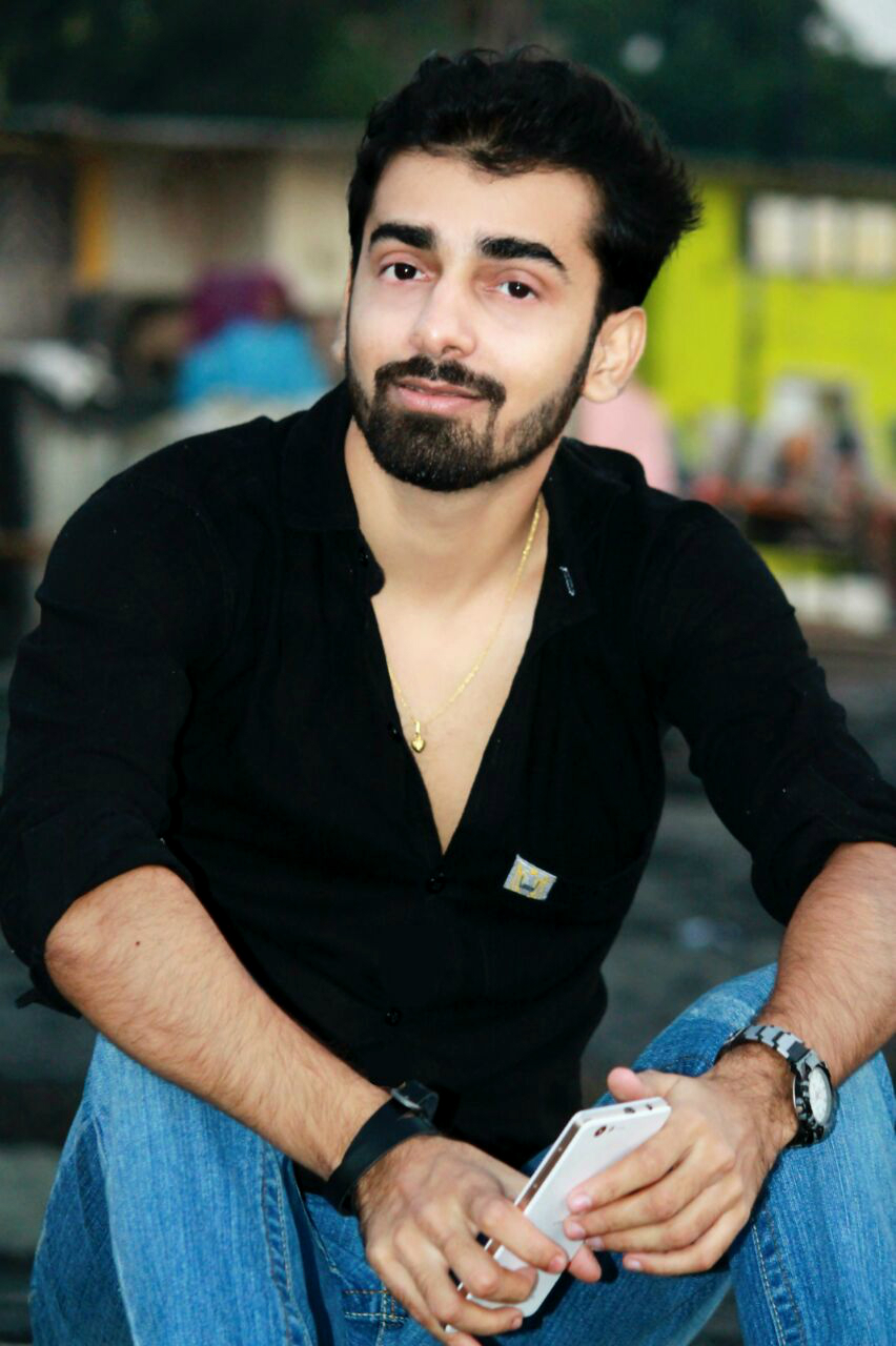 Nakshatra Bagwe Portrait